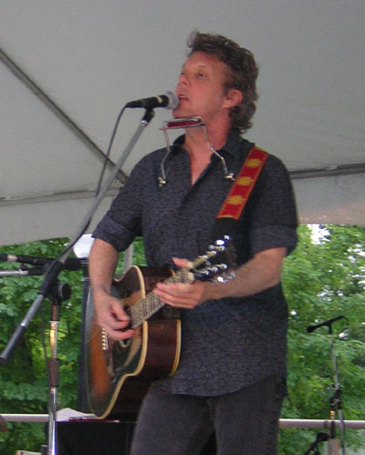 Picture of Steve Forbert performing at Rootz: The Green City Music Festival sponsored by Calliope: Pittsburgh Folk Music Society in Pittsburgh, Pennsylvania, on July 12, 2008.